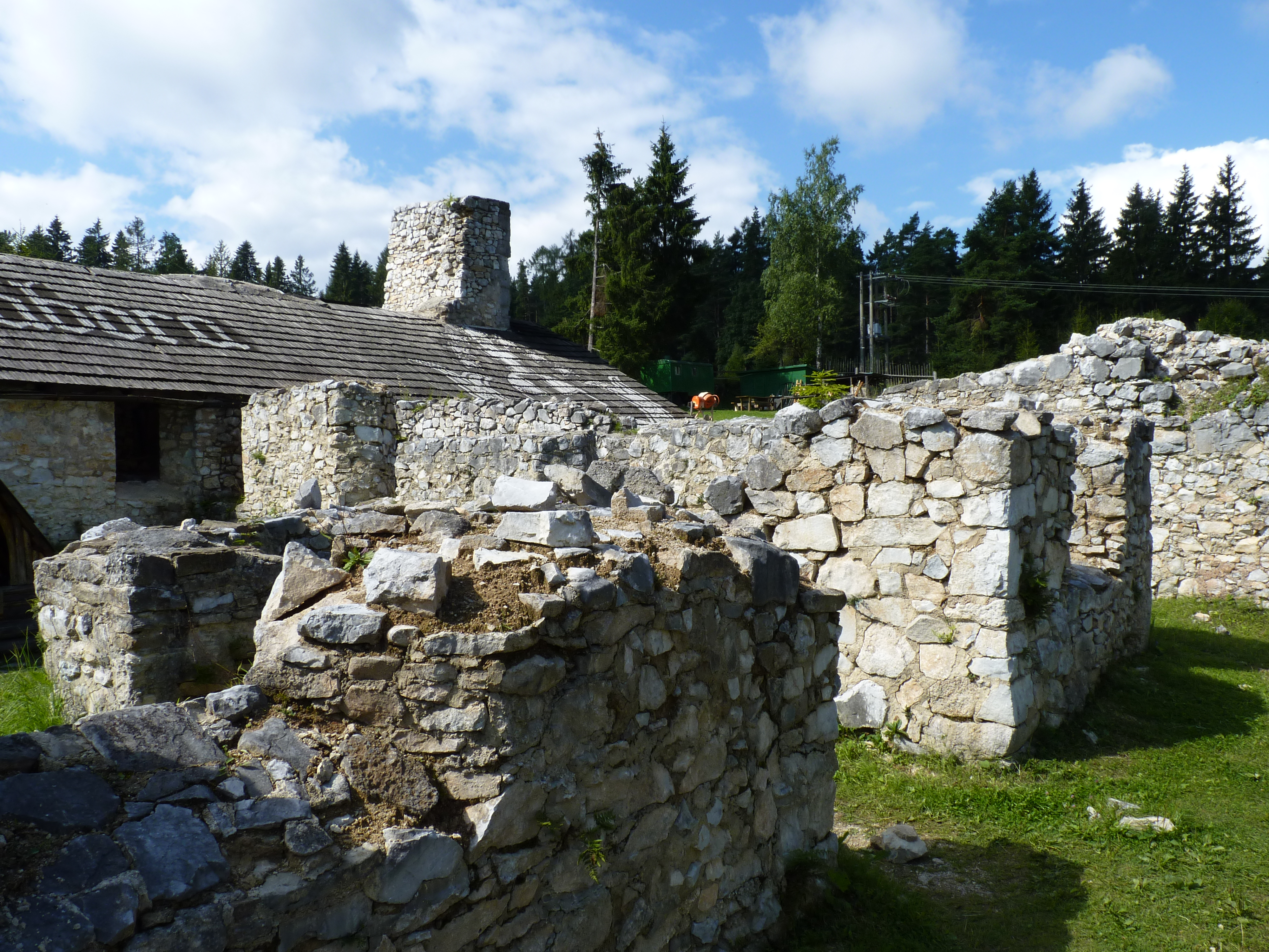 Ruins of Carthusian Monastery in Kláštorisko. Slovak Paradise, Slovakia